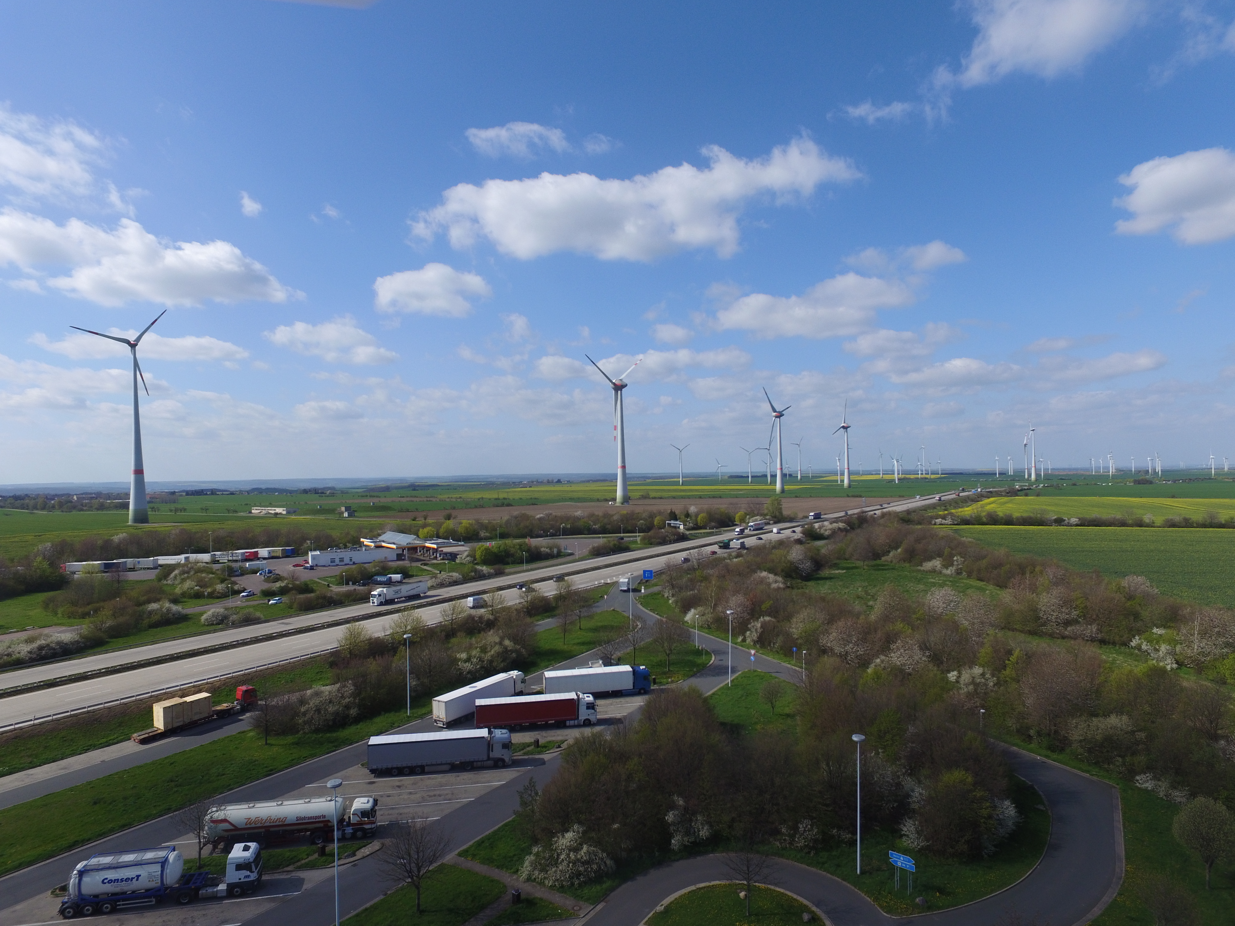 Wind farm by Stößen, Germany